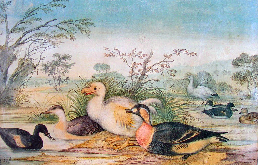 Reunion Albinistic Dodo and other birds by Dutch artist Pieter Withoos (1654-1693). The bird was thought to have been drawn from a living specimen brought to Amsterdam, but was actually copied from a painting by Pieter Holsteyn, which might in turn have been copied from a 1611 painting of a likewise white dodo by Roelant Savery.[1] From collection of Lord Rothschild